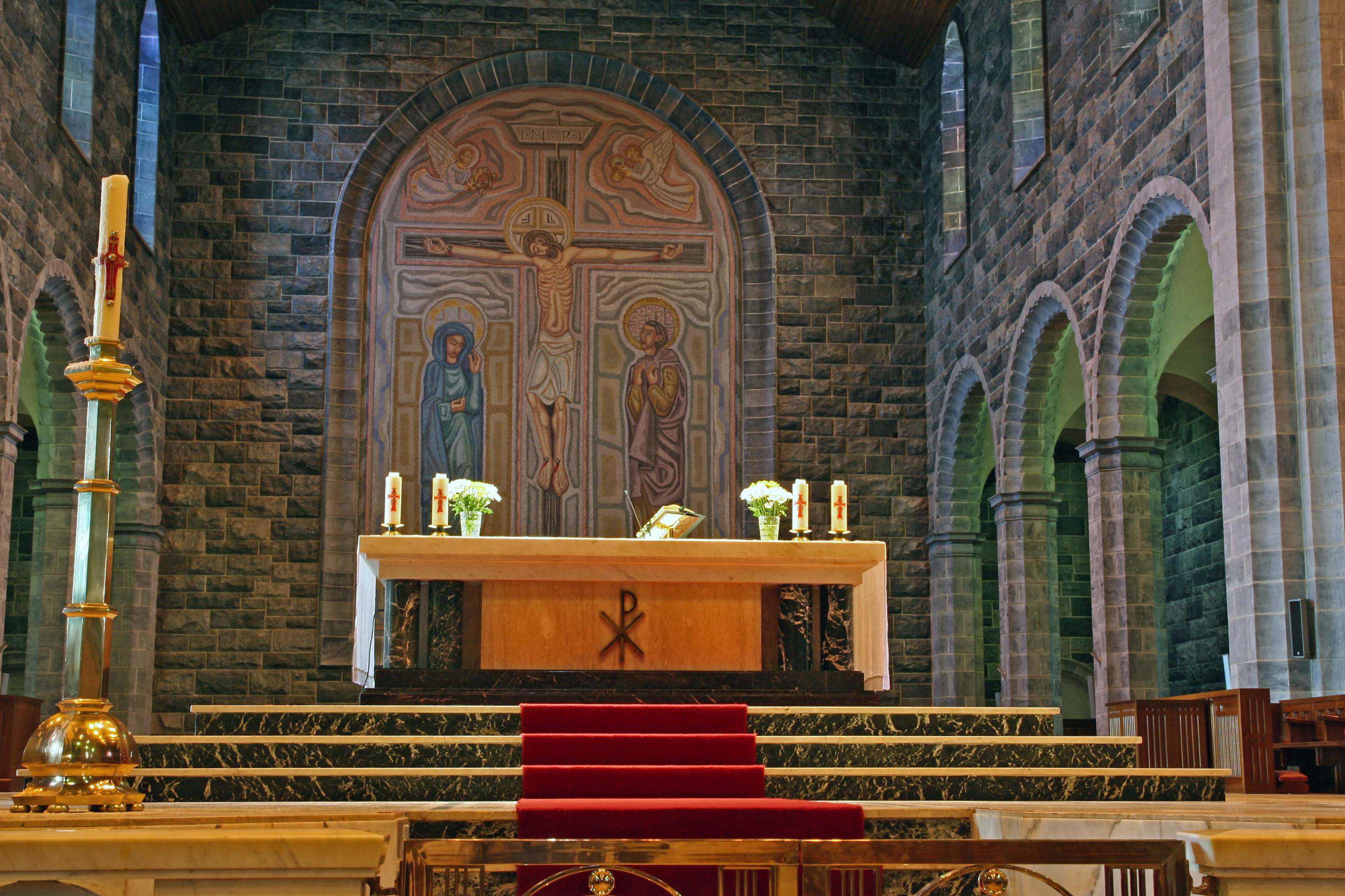 Galway (Gaillimh), cathedral. The mosaic behind the altar was created by Patrick Pollen.